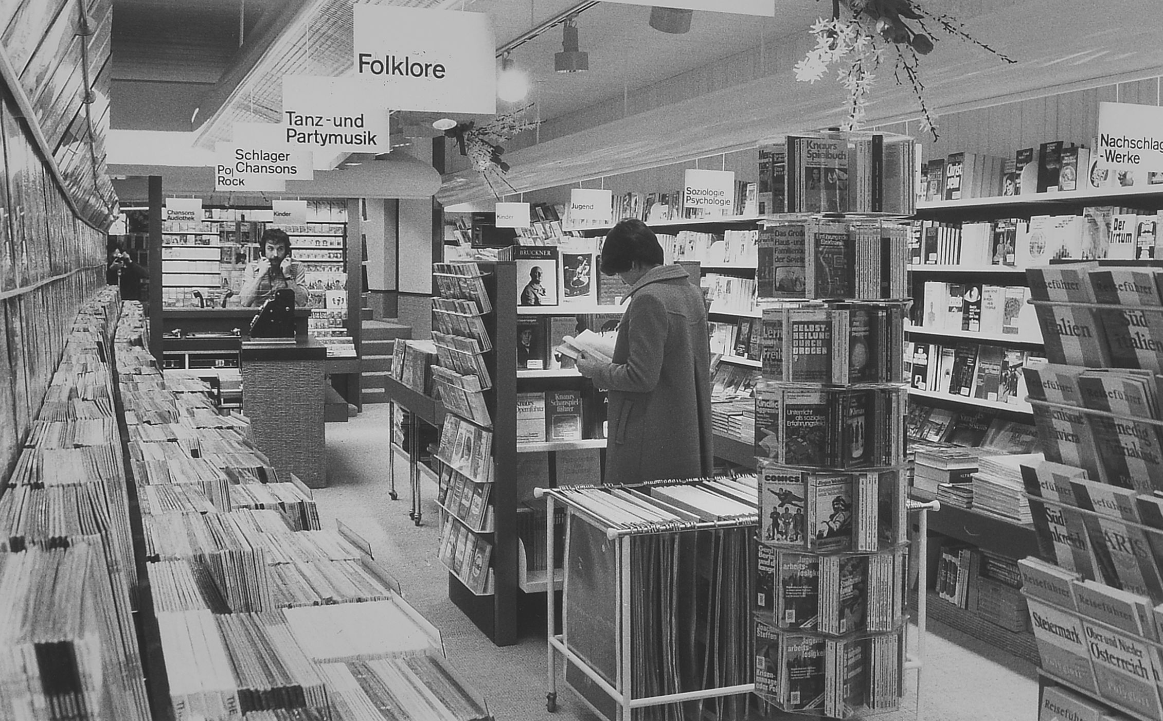 Migros Ex Libris in Bern, ca. 1970